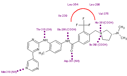 Bafetinib in it's binding site. Amino acids with major interactions displayed, dotted lines represent hydrogen bonds.